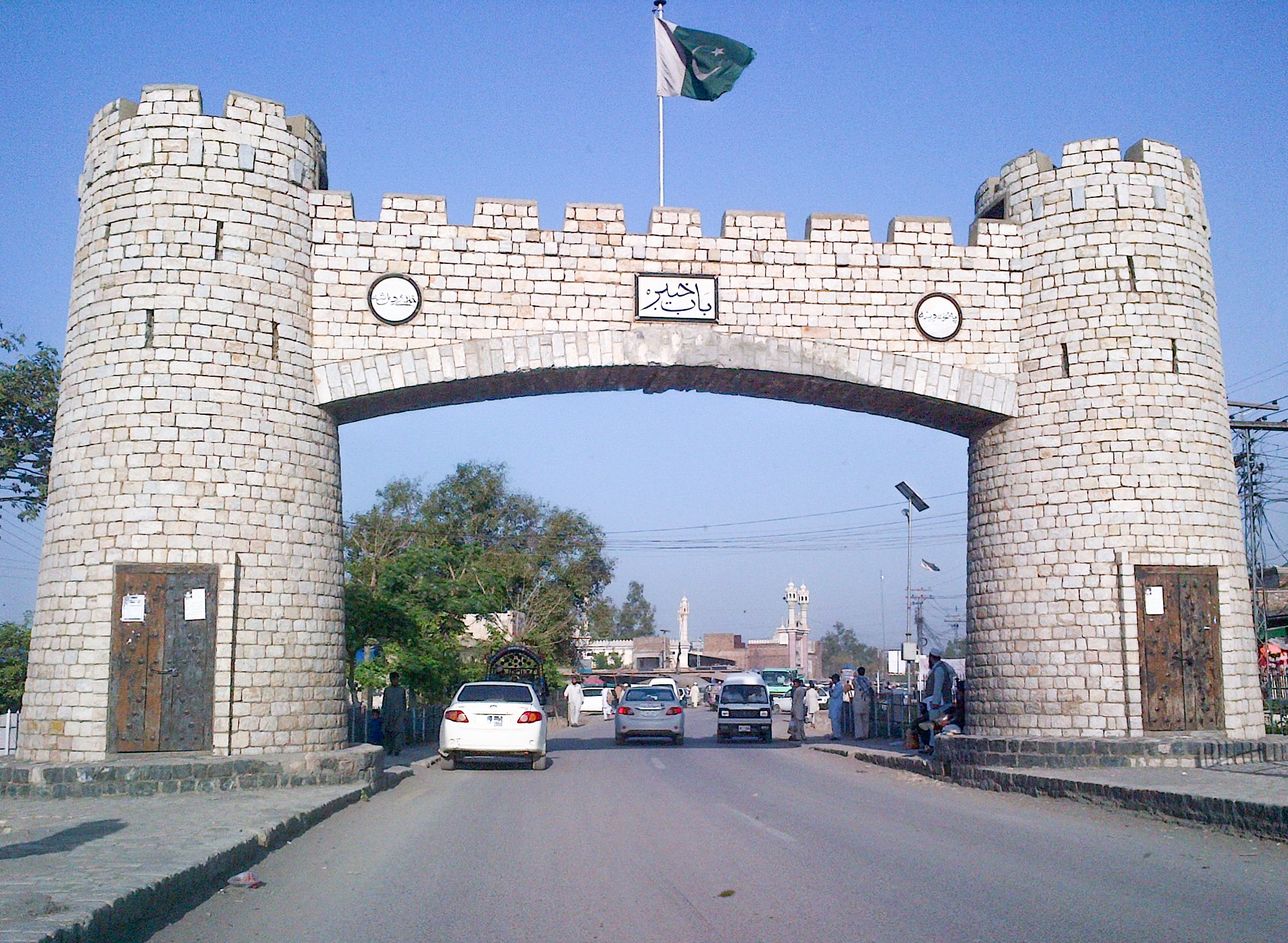 A view of the Bab-e-Khyber gateway near Peshawar